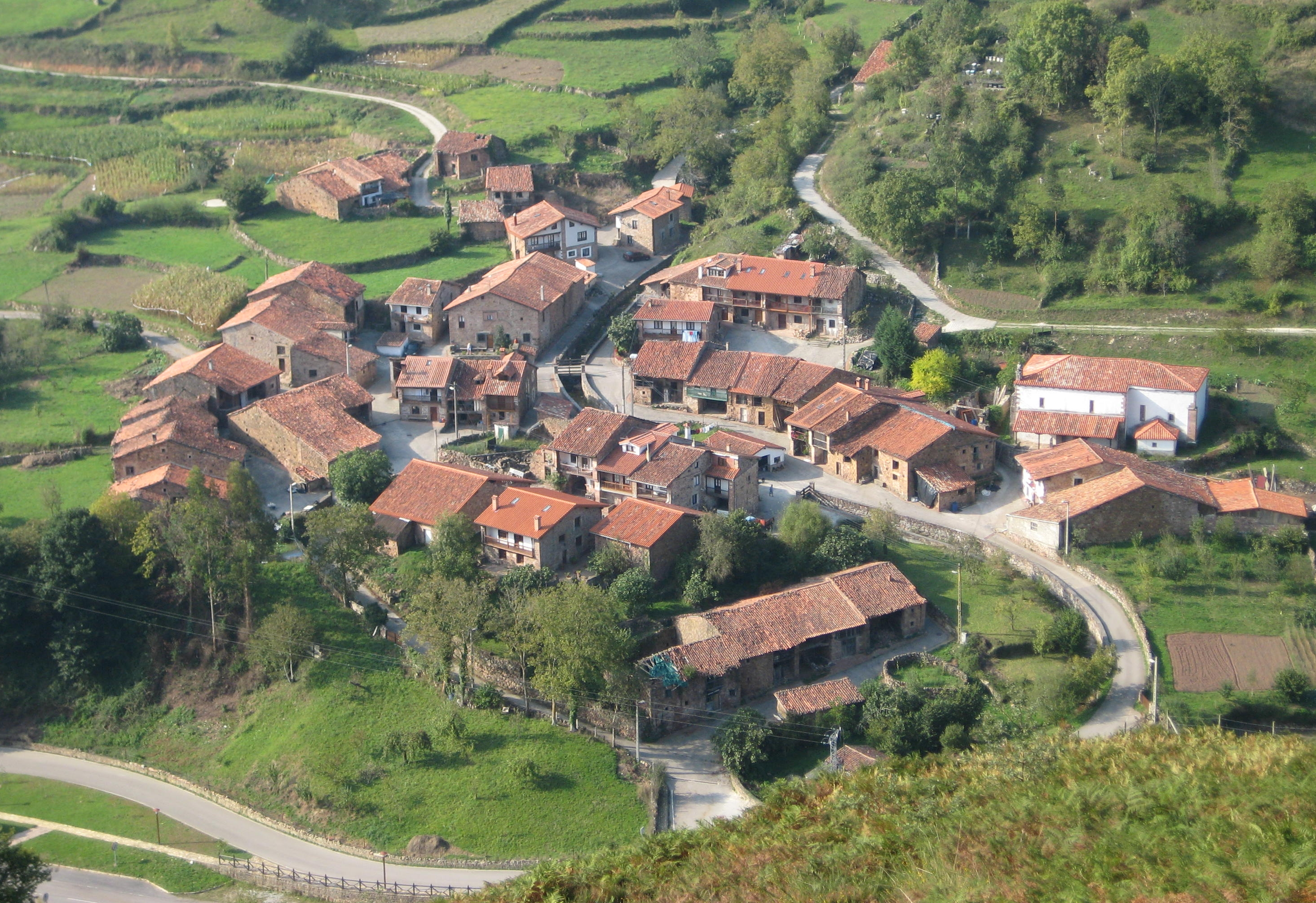 Village of San Pedro from the Asomada Viewpoint, in the municipality of Cabuérniga, Cantabria, Spain.